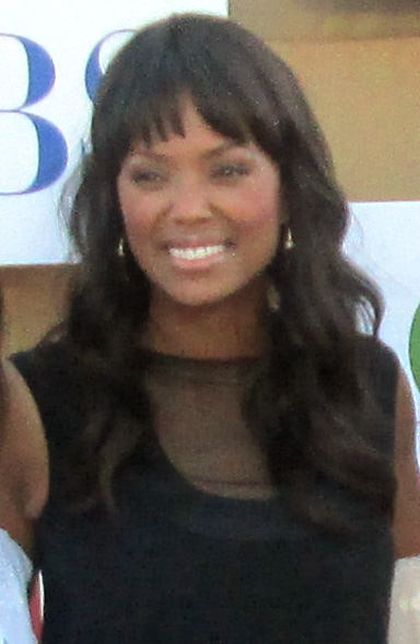 Aisha Tyler from The Ladies of TV